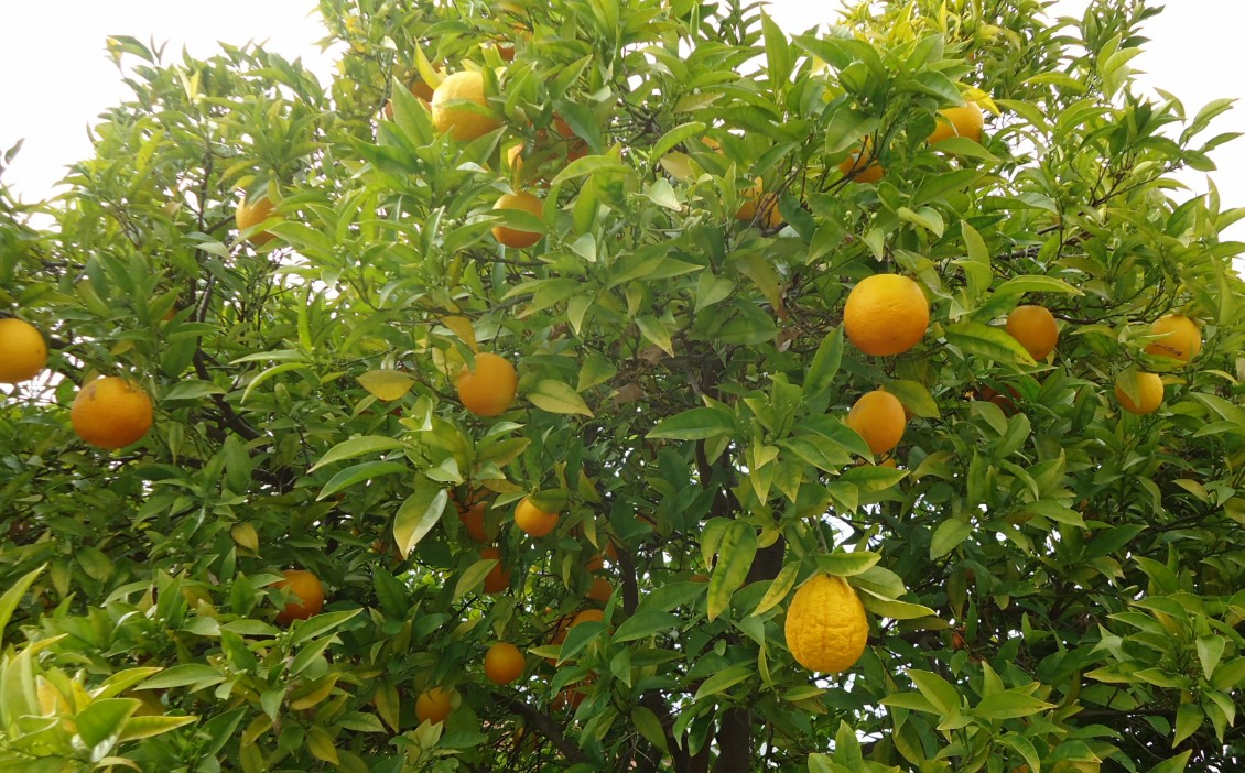 Orange tree in March in Santa Clara, California